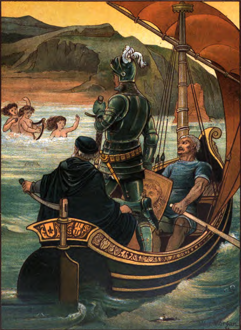 "This is the Port of Rest from Troublous Toyle"